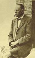 Jeno Dreher, before he took over the business in Hungary